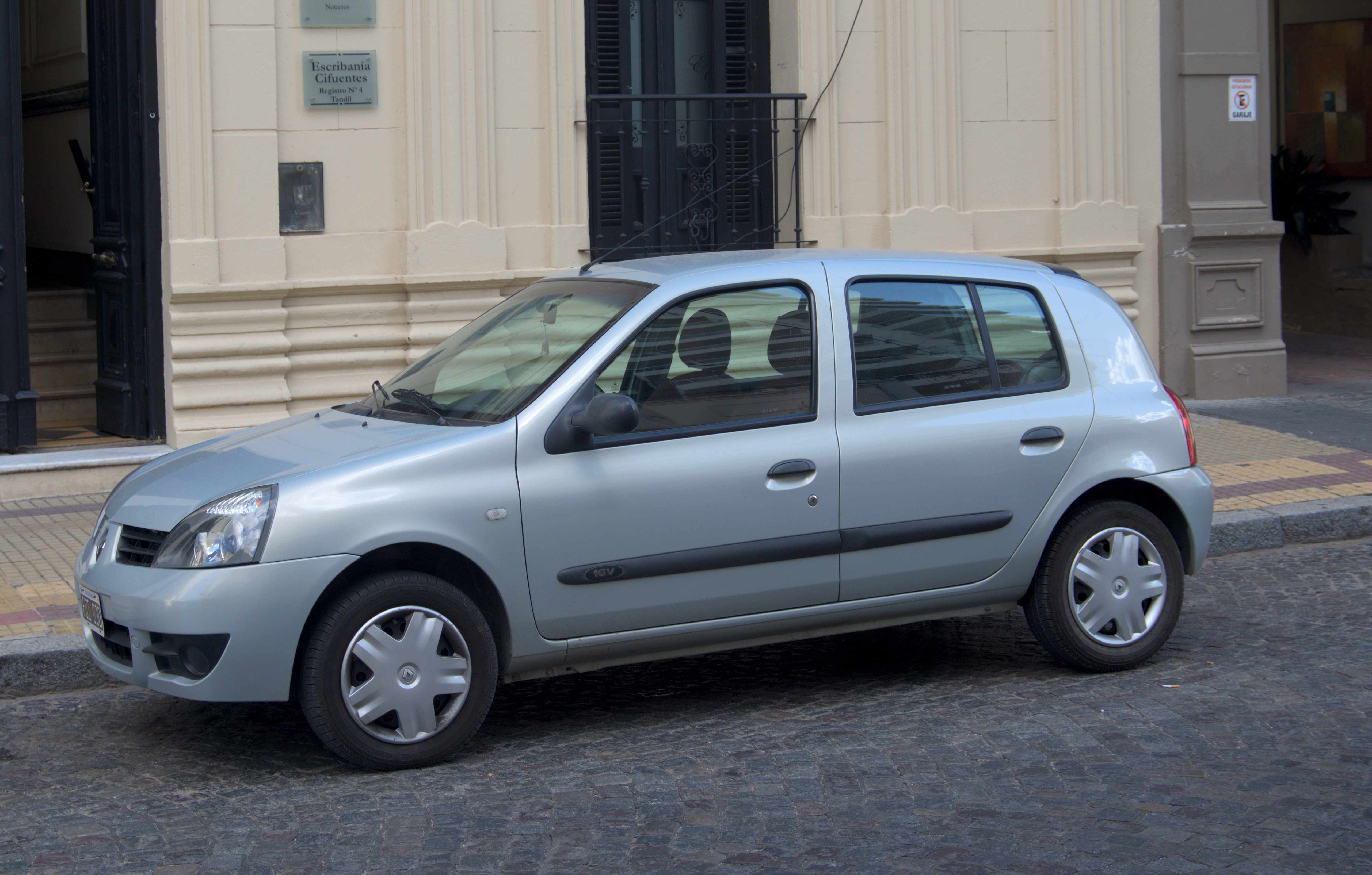 Renault Clio II parked in Tandil, Argentina